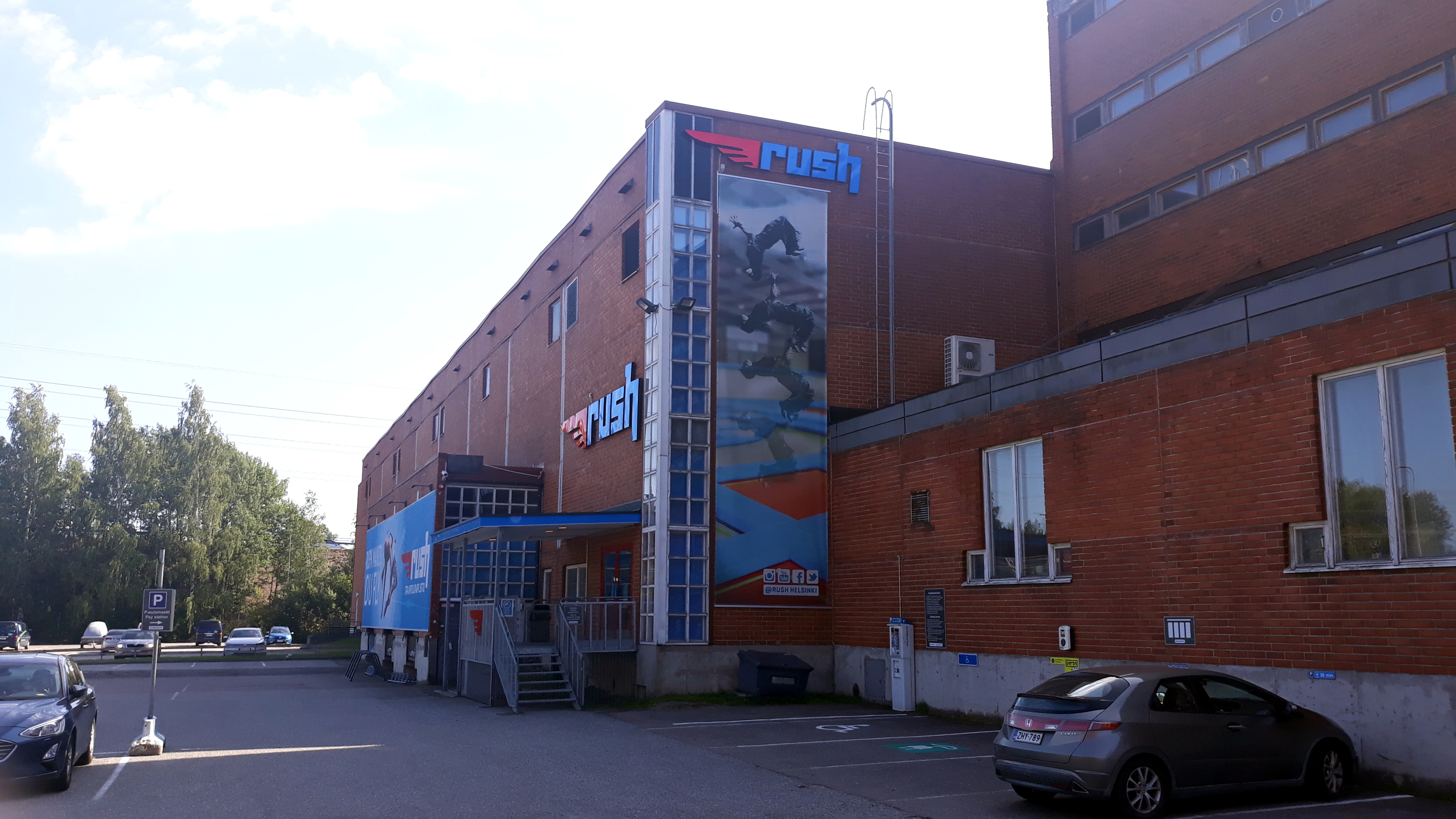 Trampoline park Rush located in Pitäjänmäen yritysalue, Helsinki.